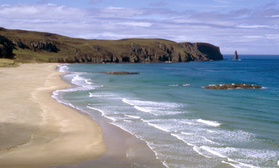 Sandwood Bay in Sutherland, almost at full tide. The sea stack, Am Buachaille, can be seen off the point. At low tide, both bay rocks are easily accessible from the beach.